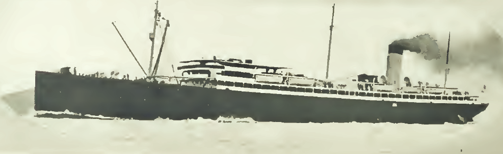 SS Matsonia.